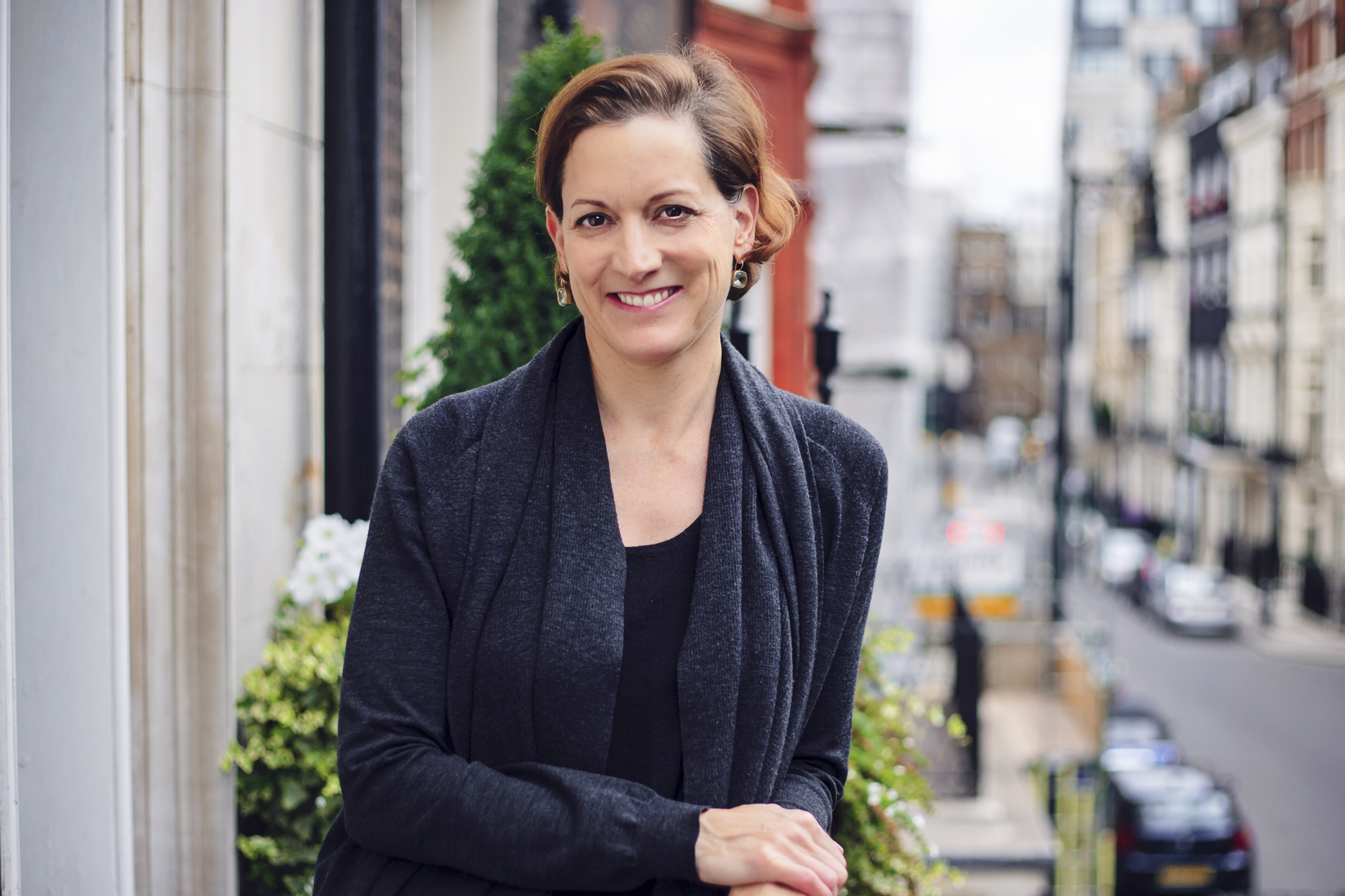 Anne Applebaum, Director of Global Transitions at the Legatum Institute; Author and Washington Post columnist